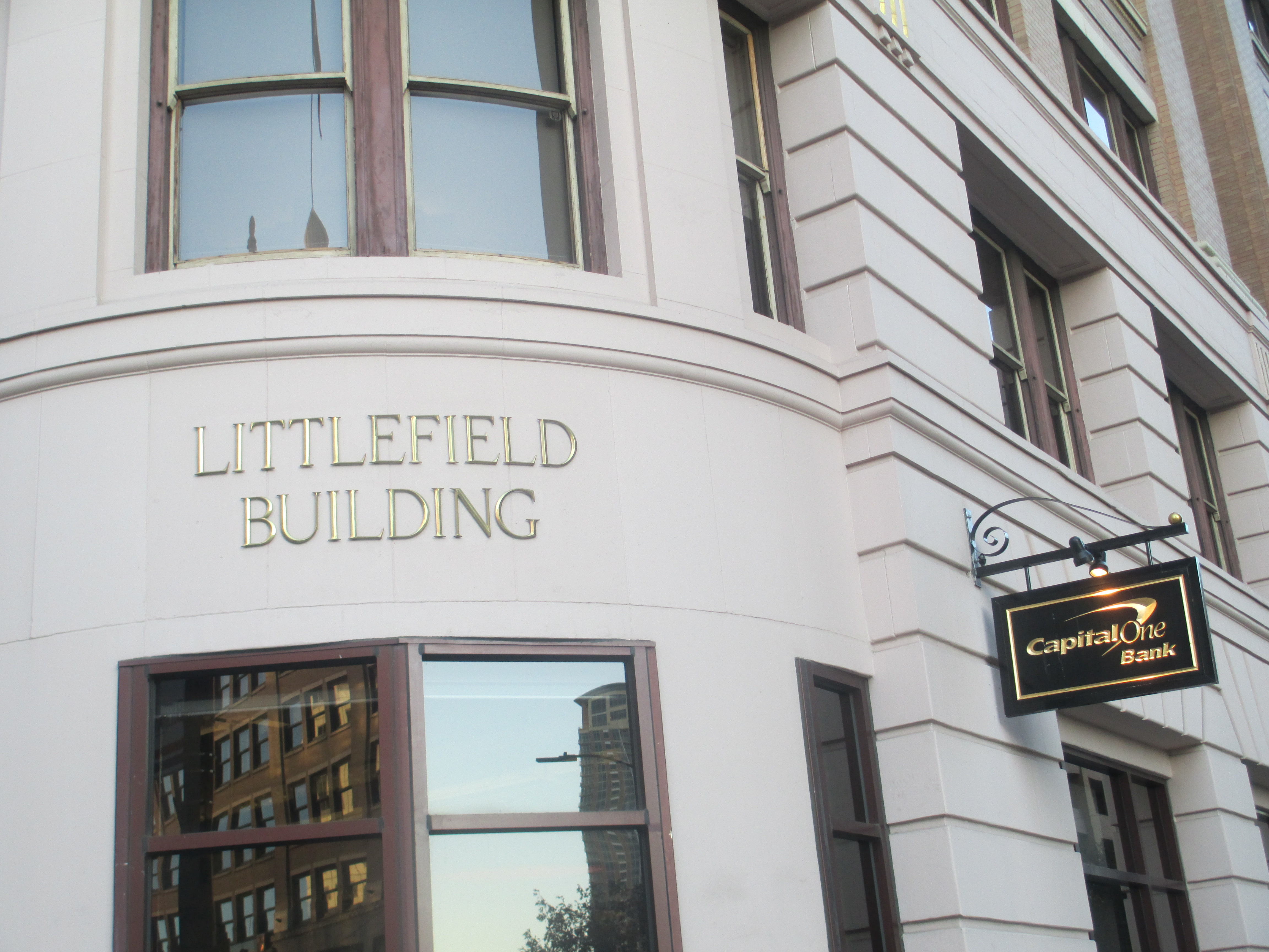 Canon camera Littlefield building, Austin, TX Jan. 17, 2013